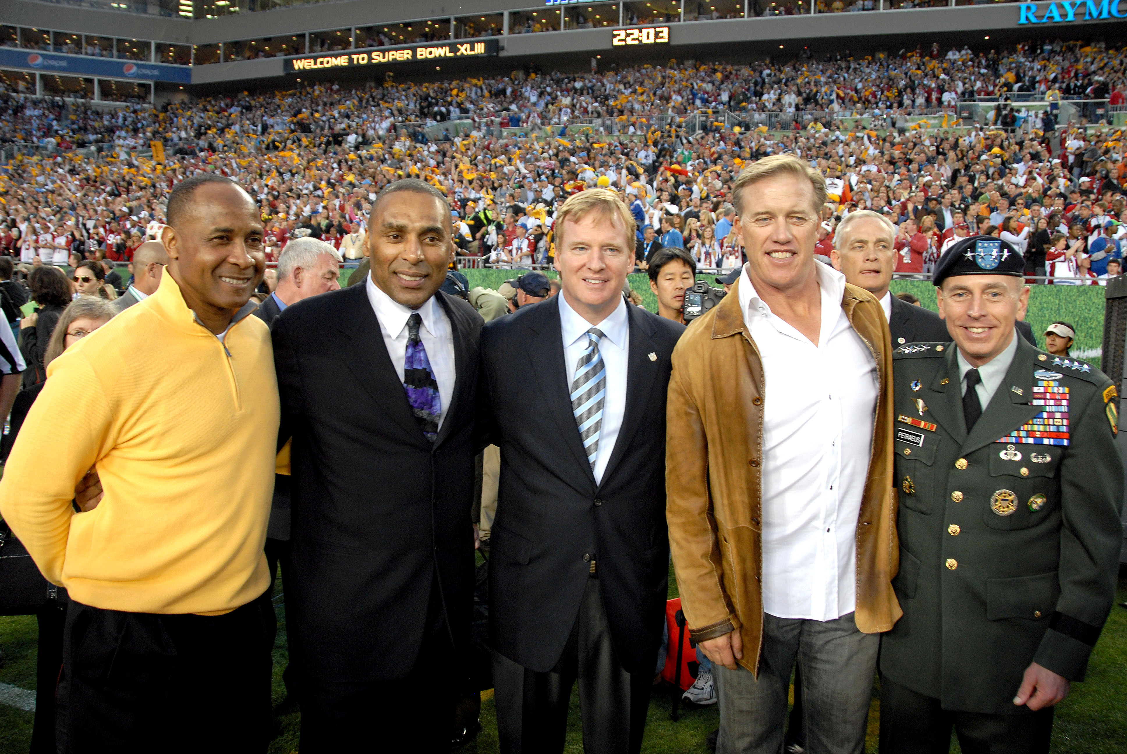 U.S. Army Gen. David H. Petraeus (far right), commander, U.S. Central Command, poses for a photo with NFL Commissioner Roger Goodell (center) and former players Lynn Swann, Roger Craig, and John Elway (second from right), during Super Bowl XLIII, Feb. 1, 2009, at Raymond James Stadium in Tampa, Fla.